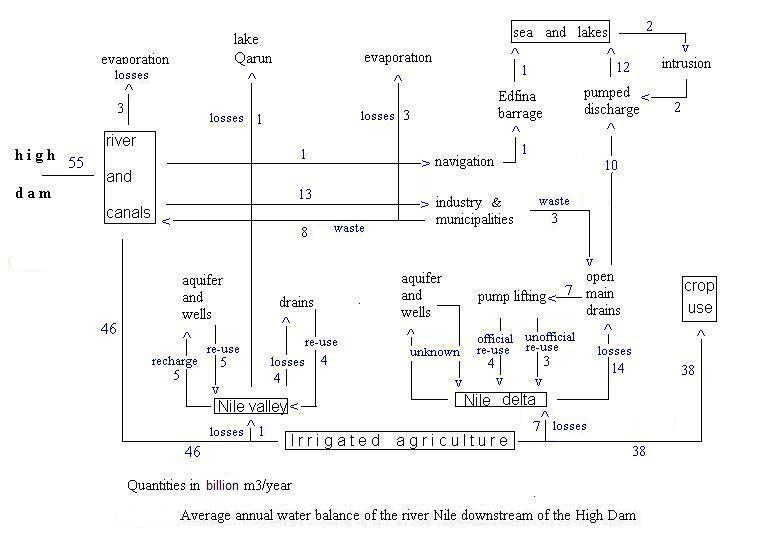 Uses of Nile water in Egypt, water balances, flow diagram